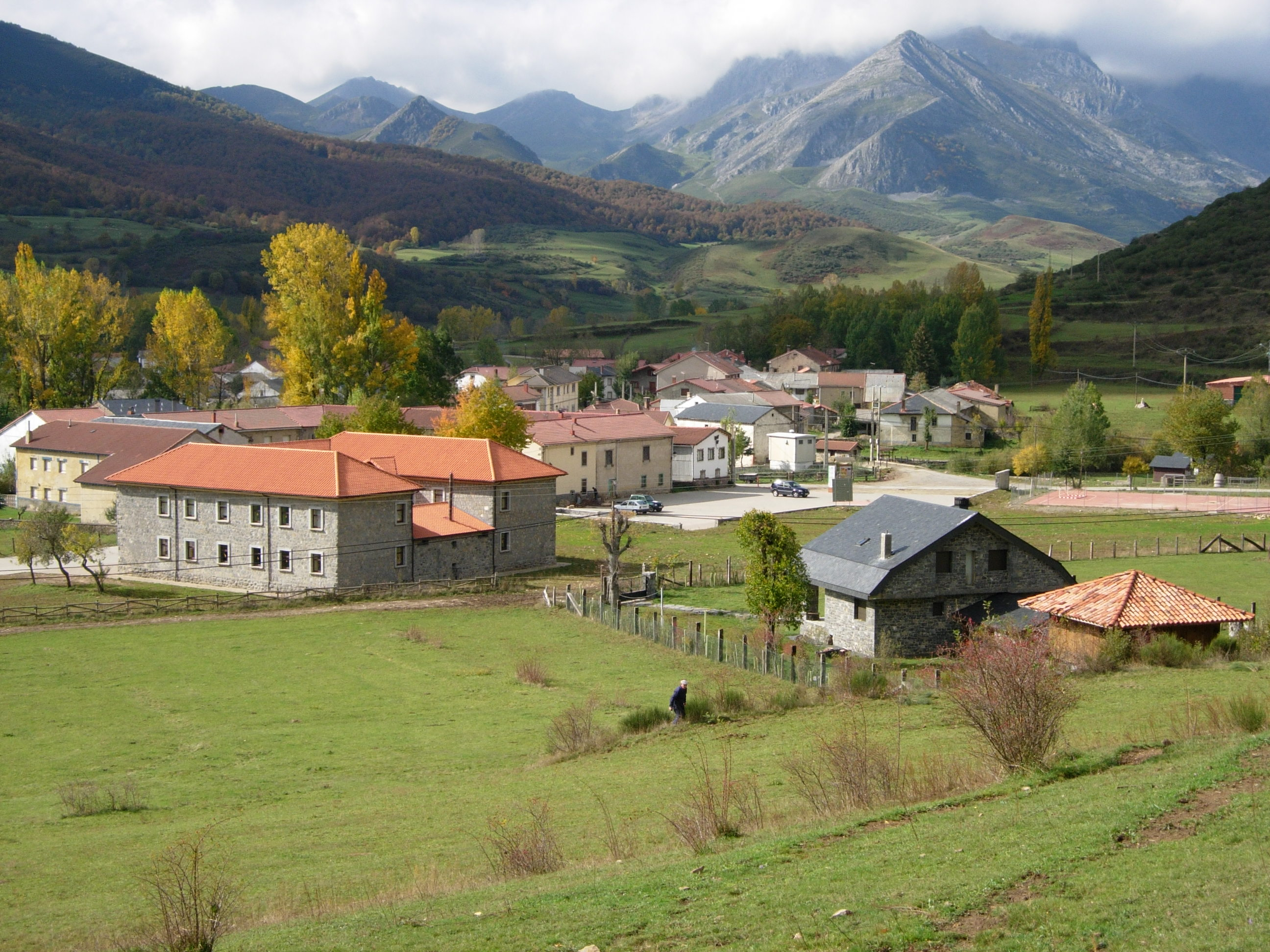 General view of Lario (Leon, Spain)